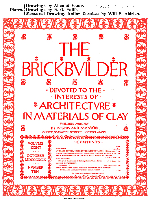 Cover of The Brickbuilder periodical (Boston, USA: Rogers & Manson, 1899)